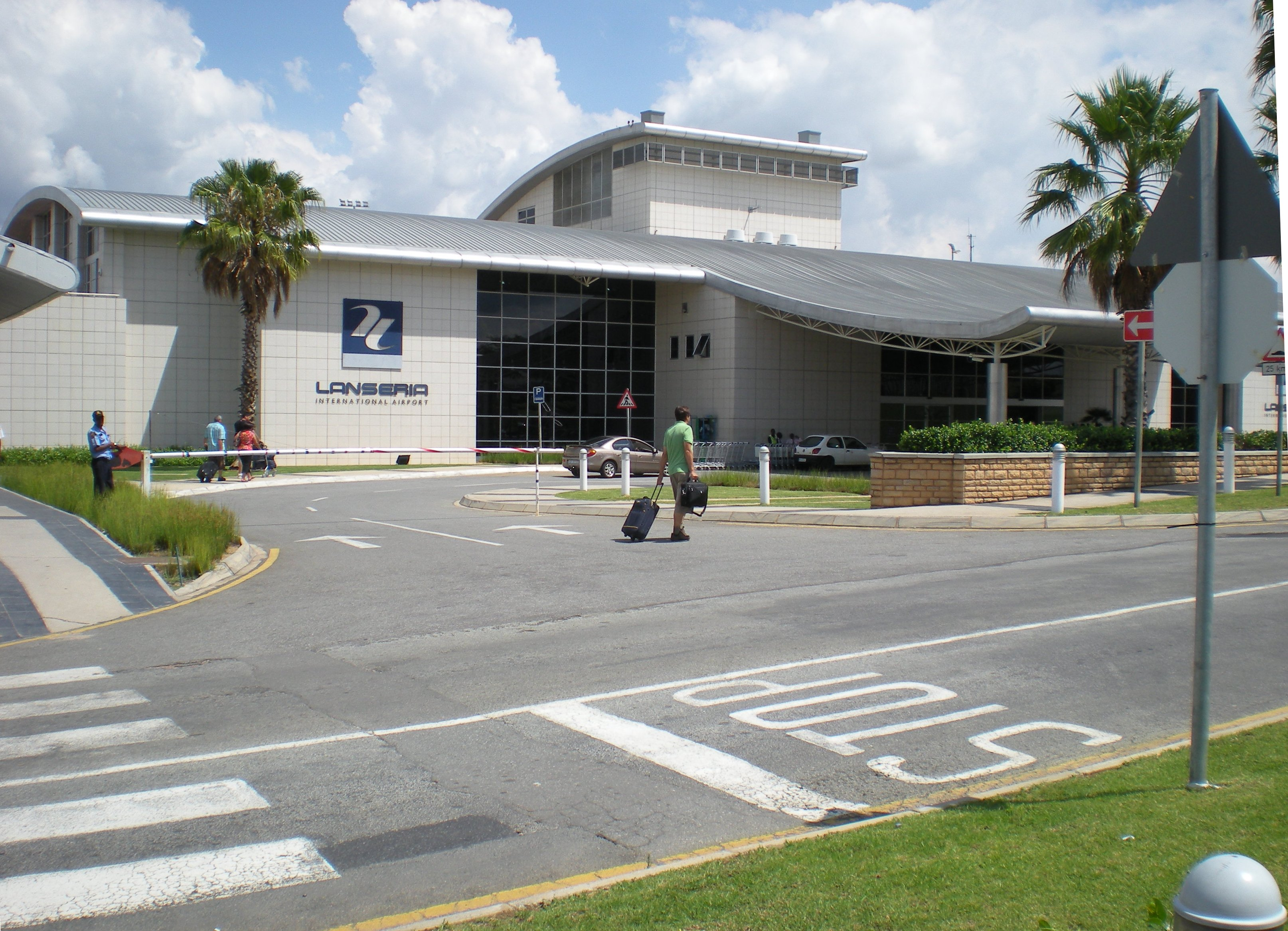 Landside exterior of Lanseria Airport, Johannesburg.